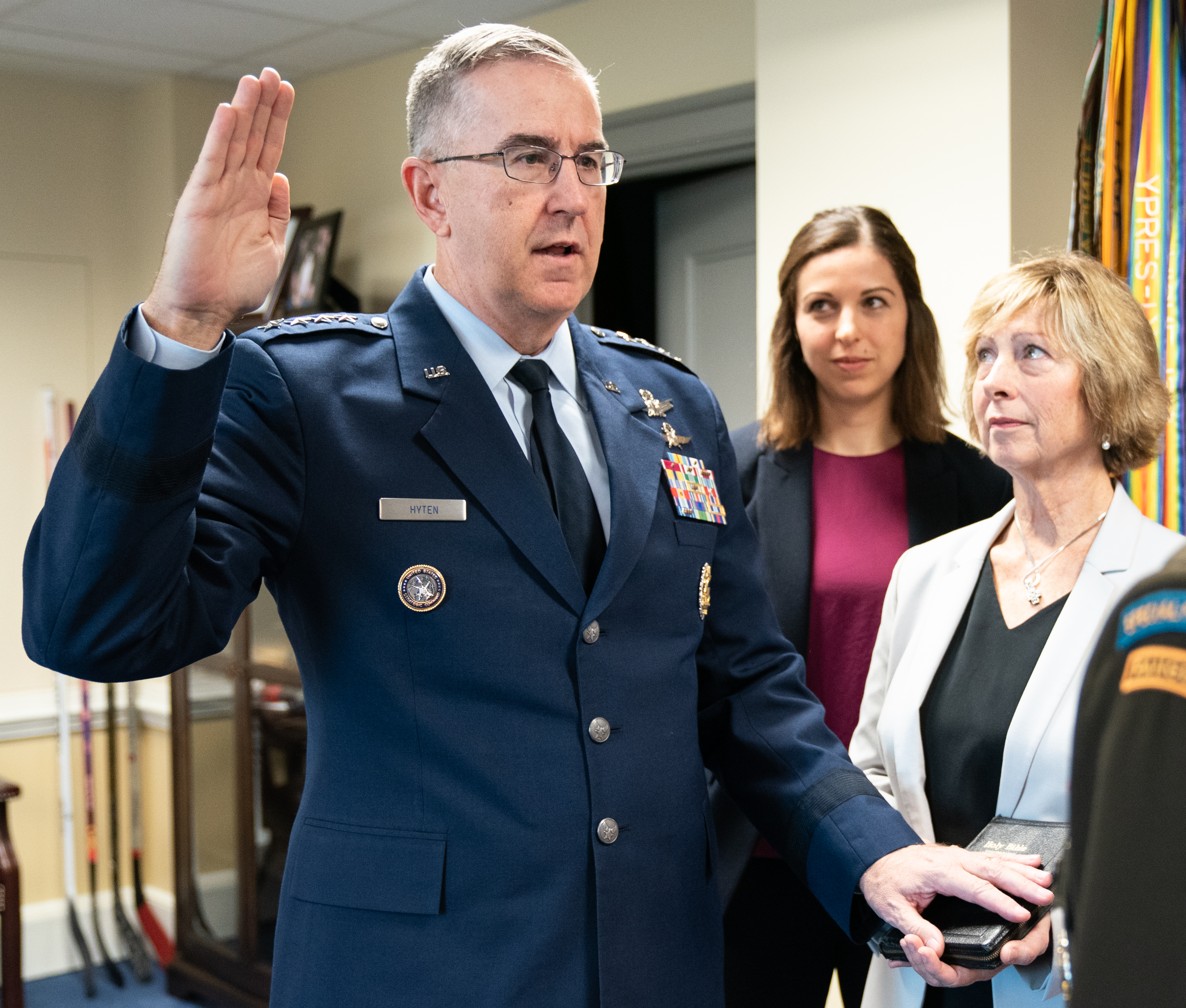 Army Gen. Mark A. Milley, chairman of the Joint Chiefs of Staff, swears in Air Force Gen. John E. Hyten as the 11th Vice Chairman of the Joint Chiefs of Staff in a small ceremony held in the Pentagon, Nov. 21, 2019. Hyten recently served as the Commander of U.S. Strategic Command. (DoD Photo by U.S. Army Sgt. James K. McCann)